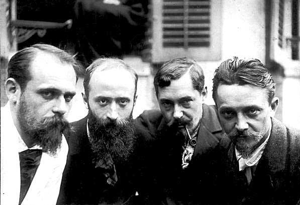 Ker-Xavier Roussel (1867-1944), Edouard Vuillard (1868-1940), Romain Coolus (1868-1952), Felix Vallotton (1865-1925), 1899.